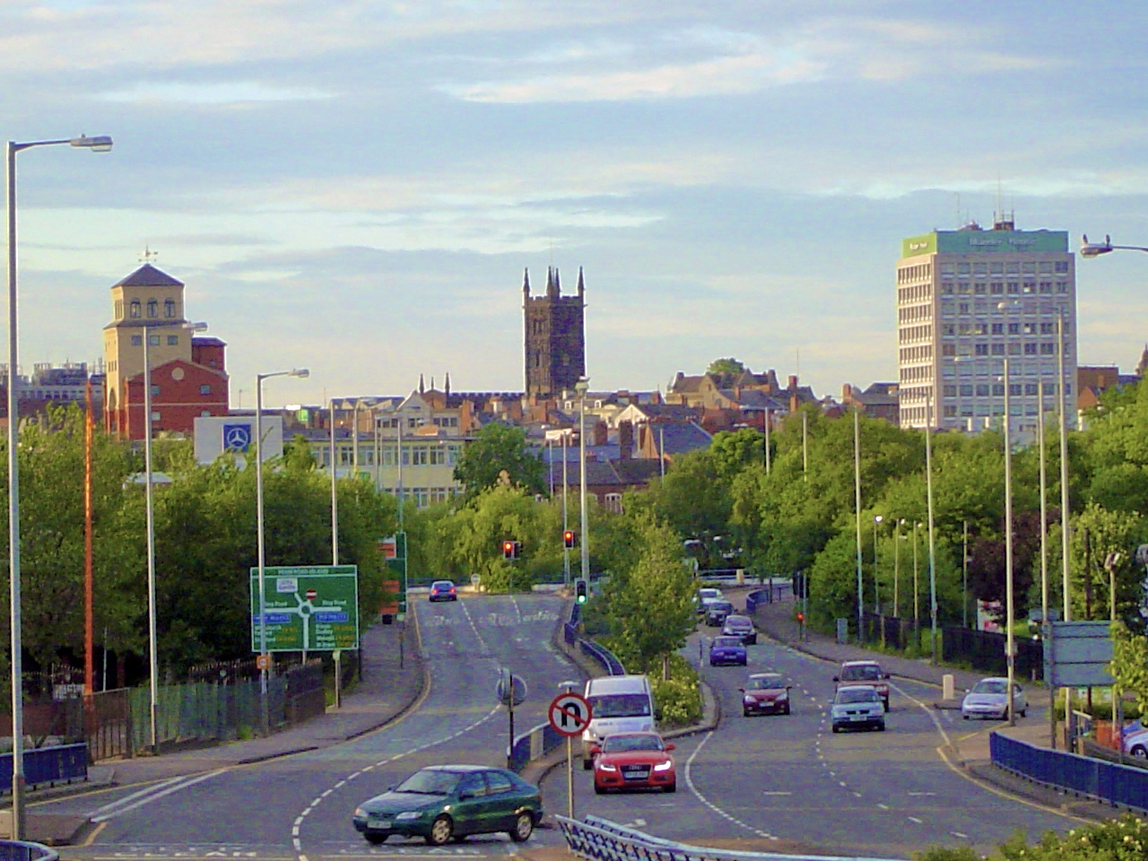 View of Wolverhampton showing the three main buildings on the city skyline